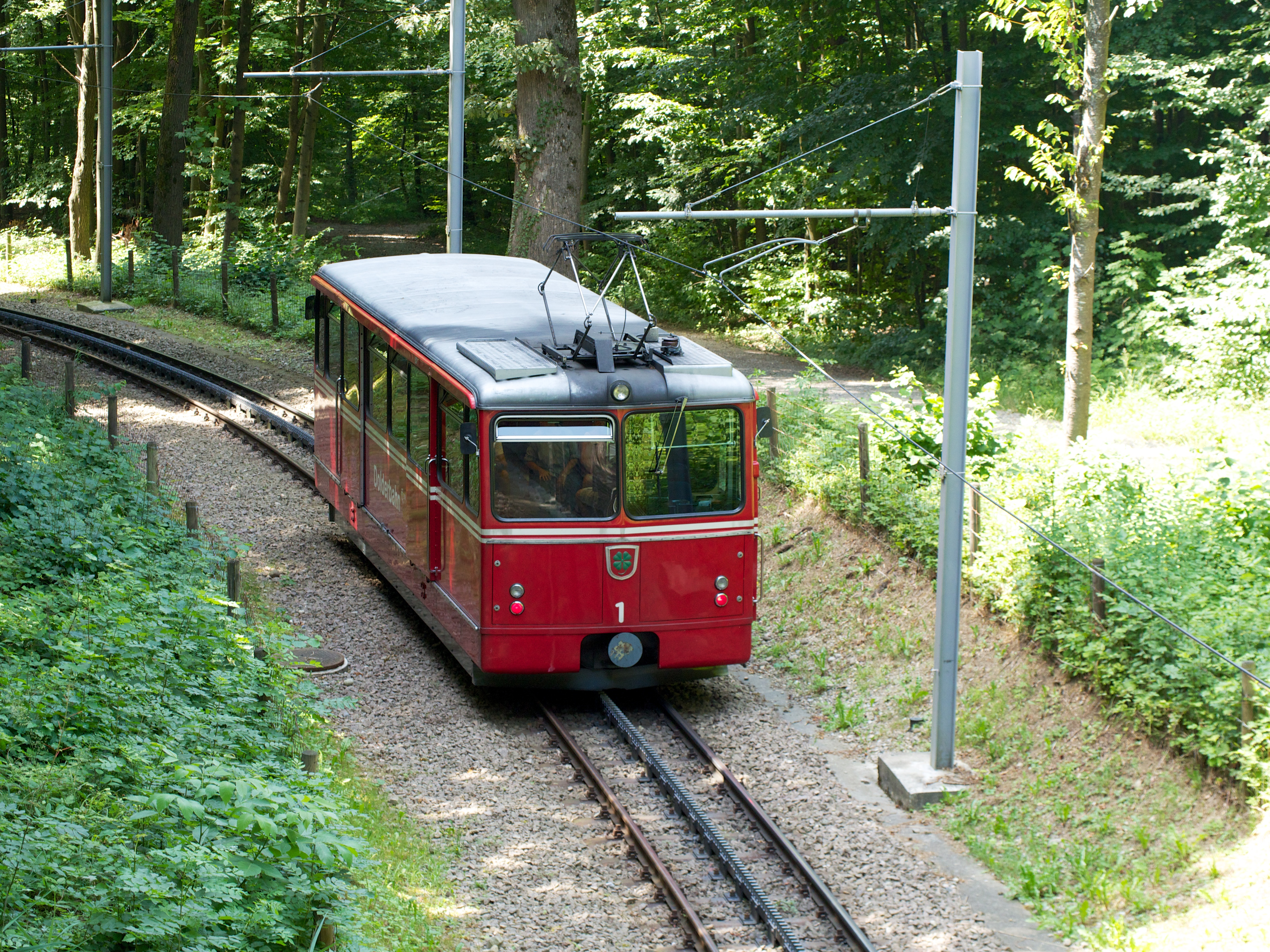 Railcar No. 1 of the rack train "Dolderbahn" in Zurich, Switzerland. The car is heading down.